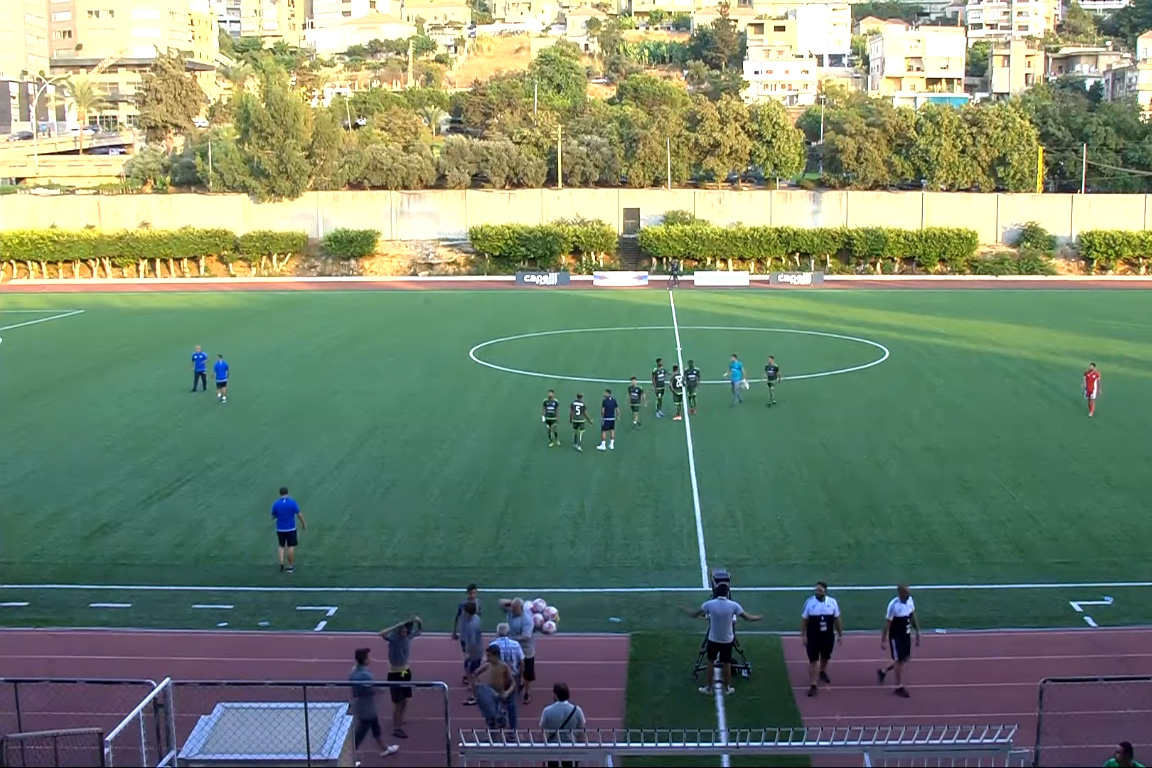 Fouad Chehab Stadium during the 2019-20 Lebanese Premier League game between Shabab Sahel and Shabab Ghazieh